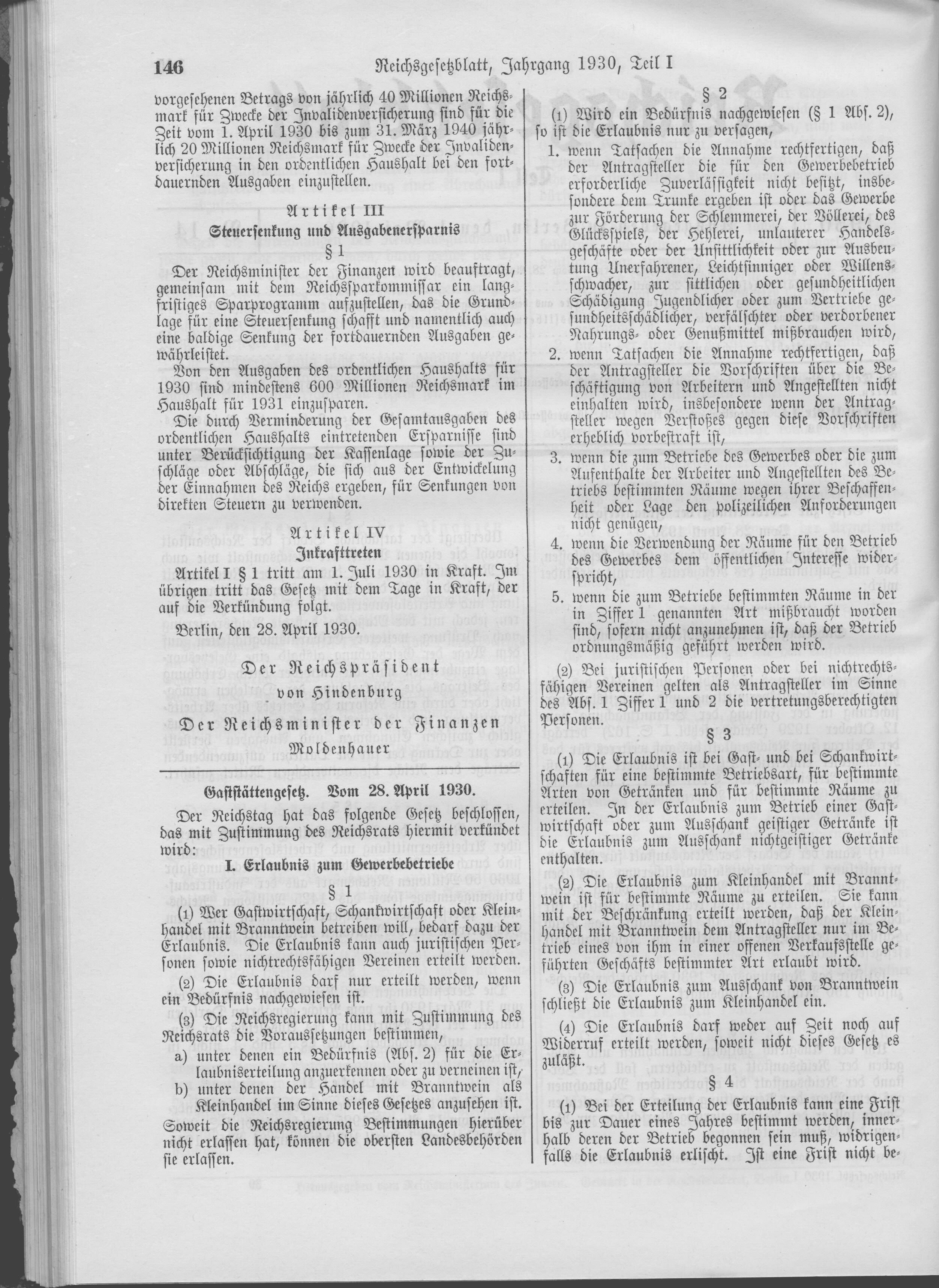 Scan from the Imperial Law Gazette of Germany, 1930, part 1